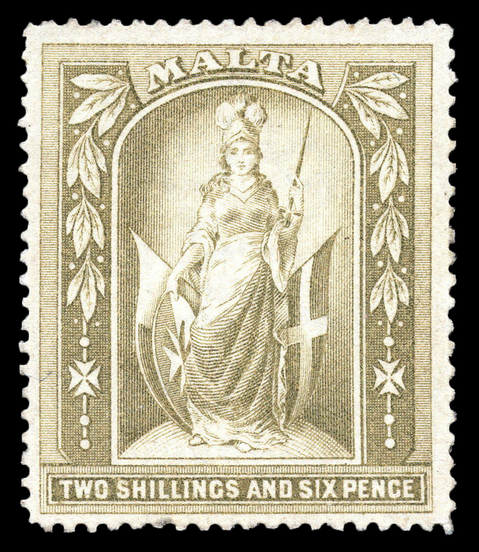 Malta 1899 Melita 2s6d olive-grey stamp in mint condition